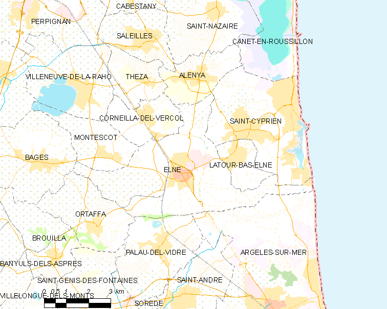 Map of French municipality